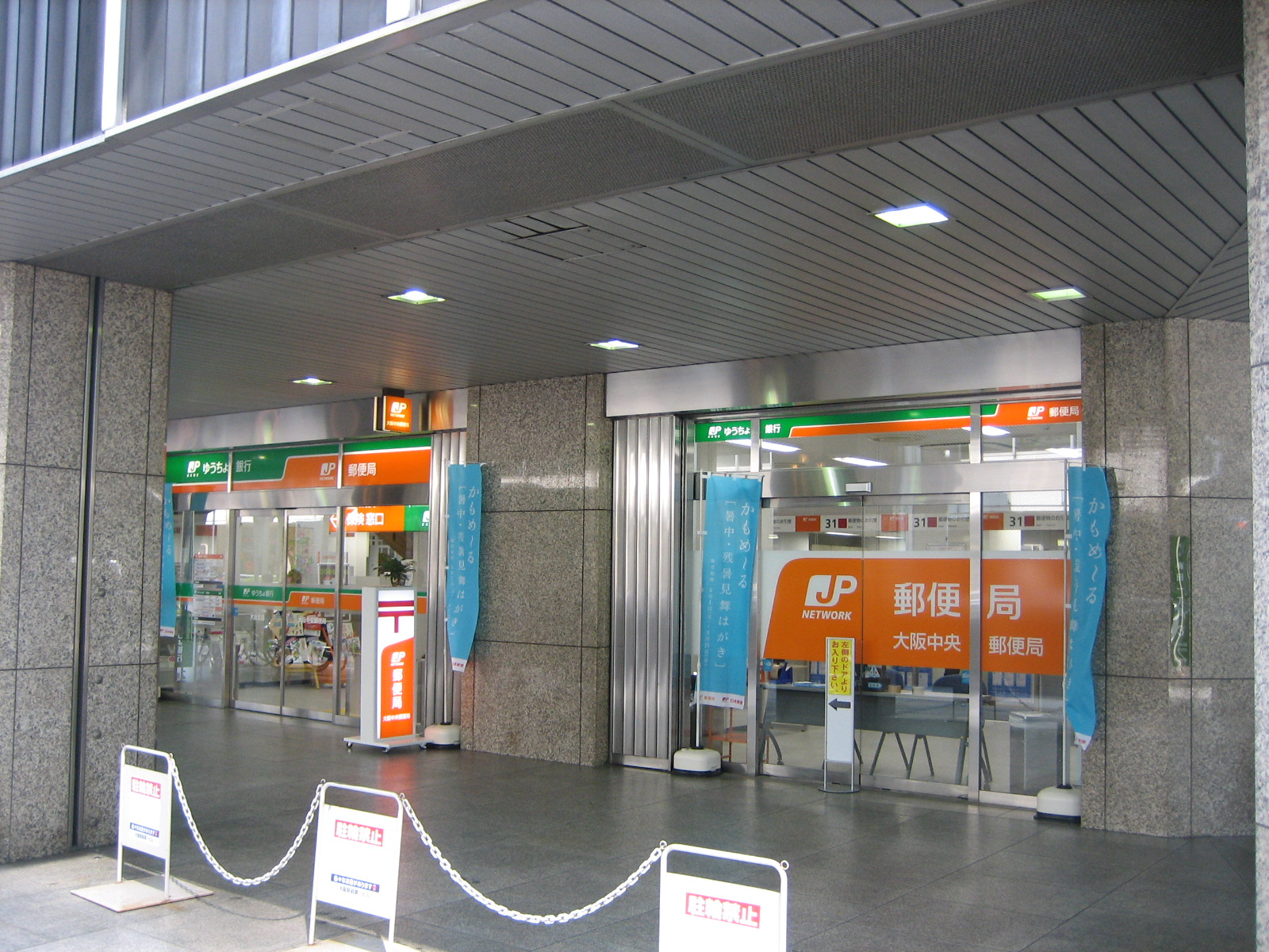 Osaka central post office